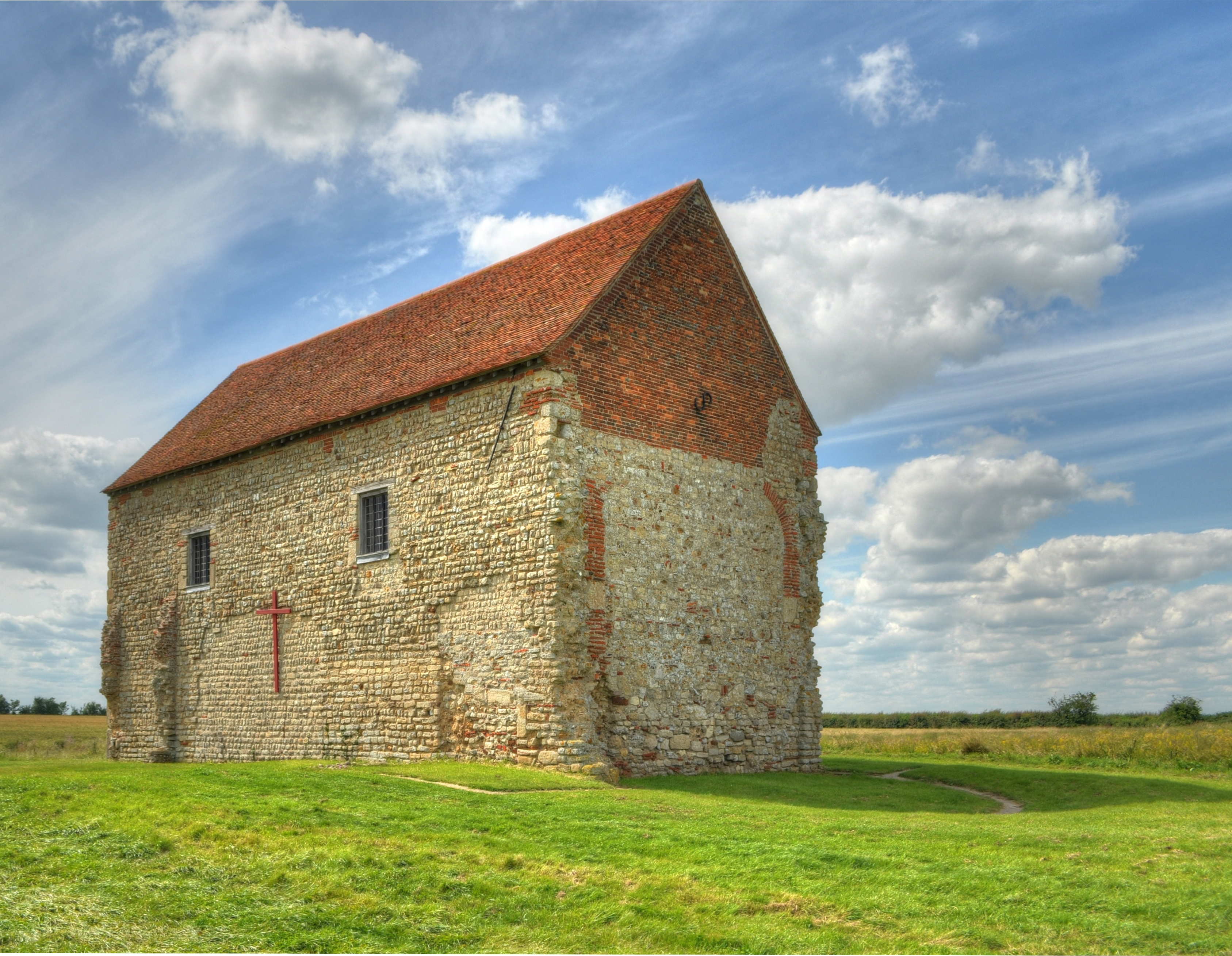 St Peters Chapel, Bradwell, Essex seen from the south east